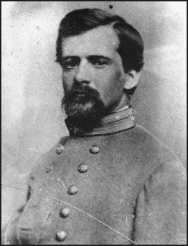 John Pegram, CSA. This image appeared on English Wikipedia's Main Page in the Did you know? column on 16 October 2007 (see archives).